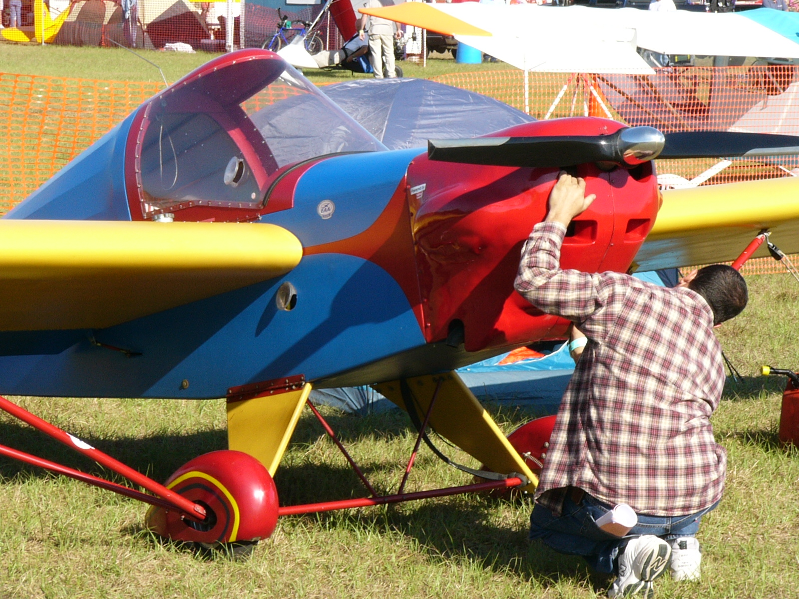 A TEAM Z-MAX 1300Z at the Sun 'n Fun, Lakeland, Florida, USA